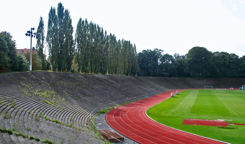 An overview of Brusels' Drielindenstadion, situated in Watermaal-Bosvoorde and 2nd largest stadium in Belgium.